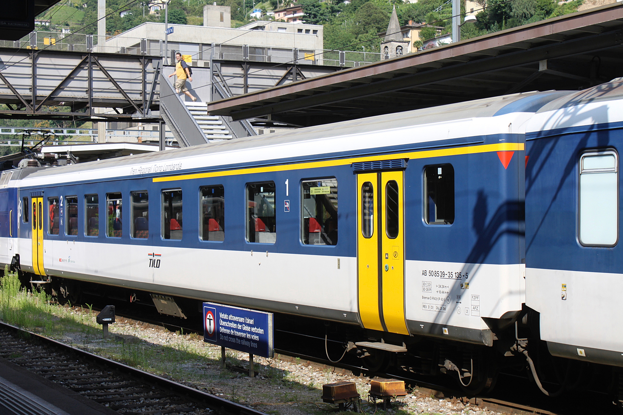 SBB CFF FFS AB 50 85 39-35 135-5 at Bellinzona train station.